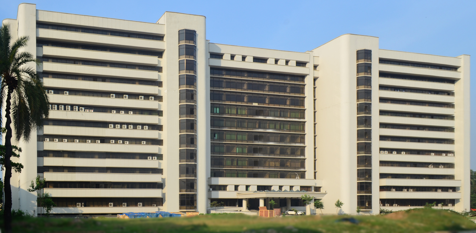 This is a photograph of the ECE Building, BUET